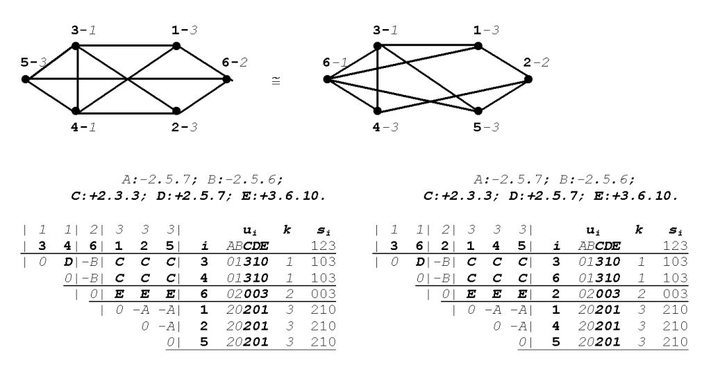 Equivalence of structures